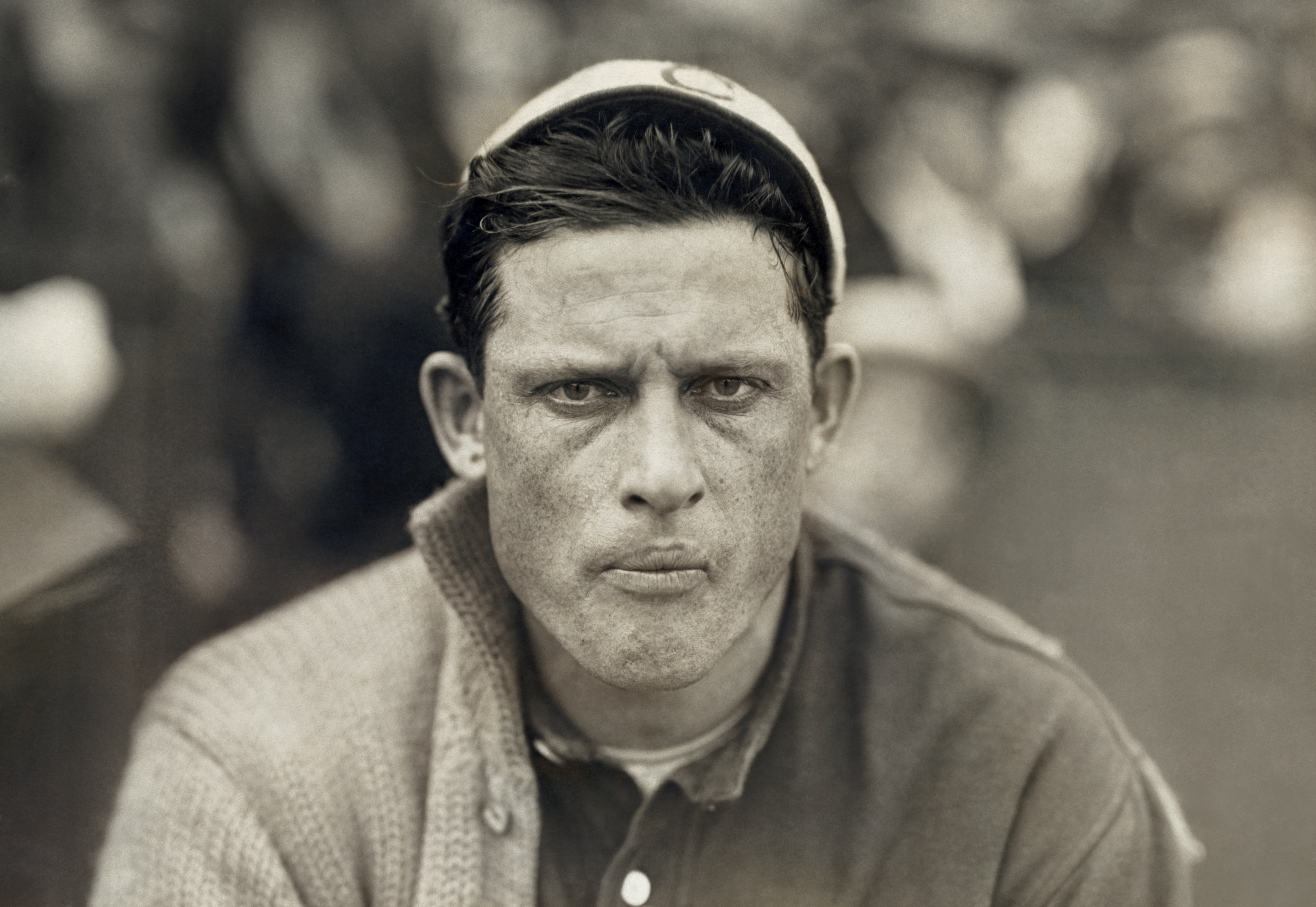 Head-and-shoulders portrait of Chicago White Sox pitcher Ed Walsh.